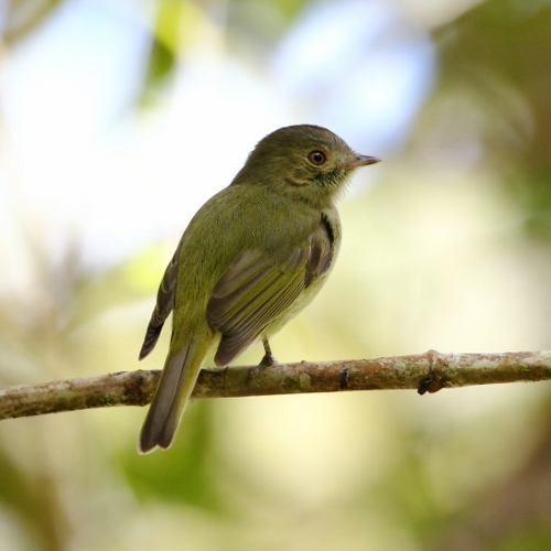 Serra do Mar Tyrant-Manakin at Intervales State Park - Ribeirão Grande - SP - Brazil